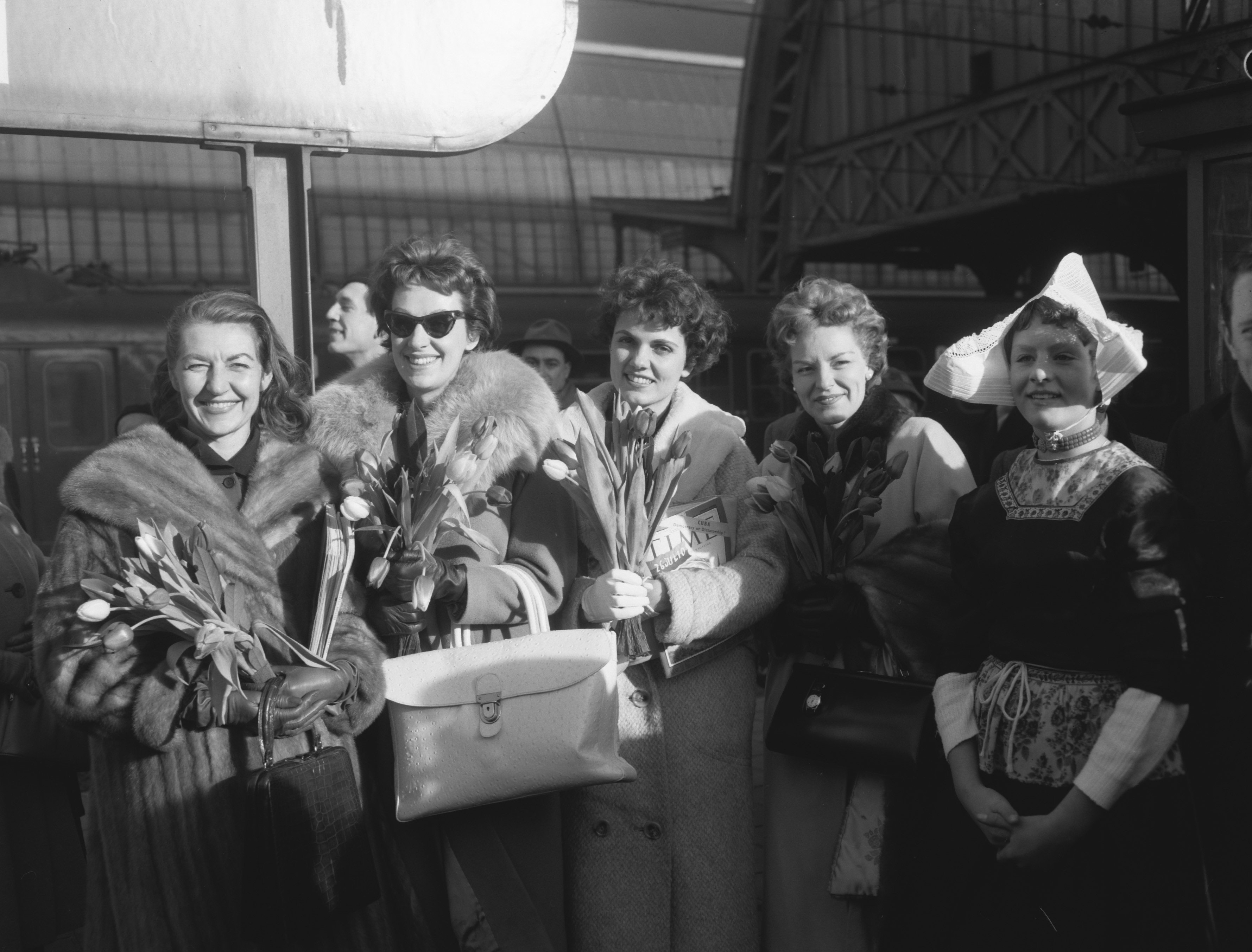 Musical group The Chordettes arriving at Amsterdam Central Train Station. The group is welcomed with tulips, by a girl in Volendam costume